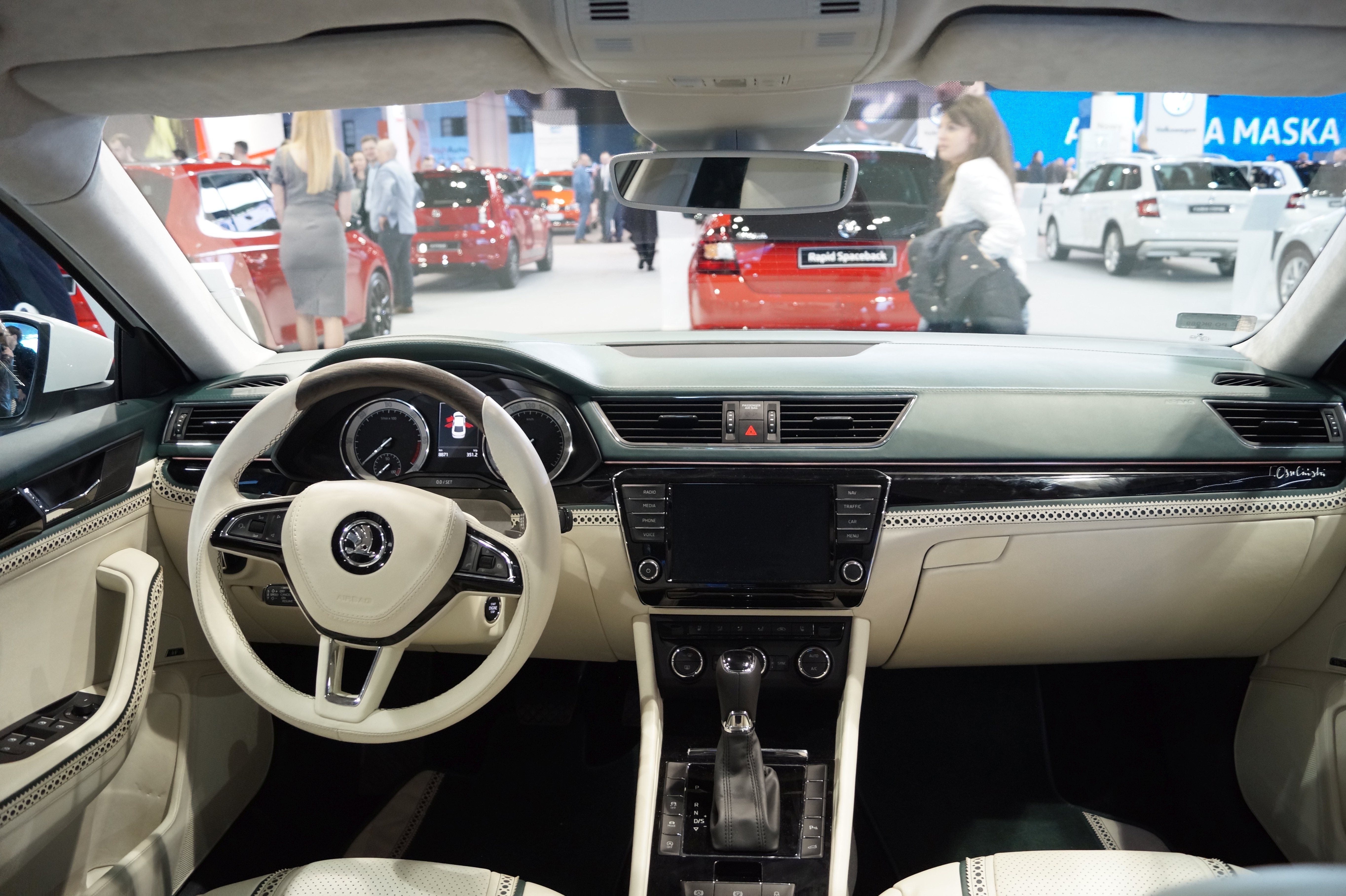 The making of this document was supported by Wikimedia Polska Association, within Wikigrant no. WG 2016-10. English | polski | +/− Wnętrze Škody Superb na Motor Show Poznań 2016